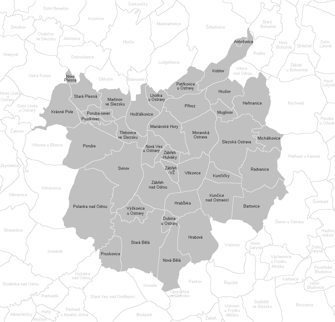 Cadastral map of Ostrava